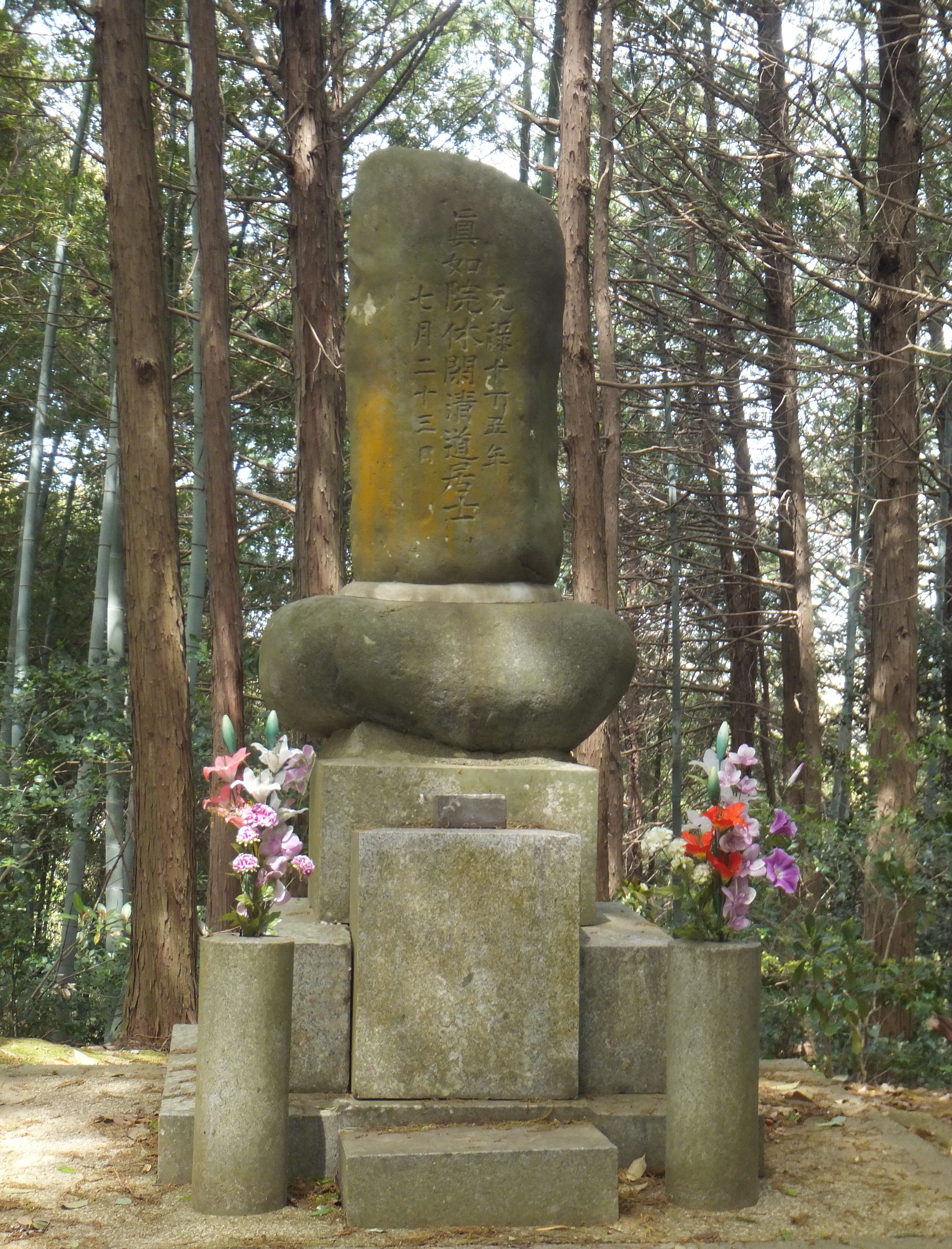 Grave of Miyazaki Yasusada (1623-1697), who wrote the first Japanese scientific book on agruculture. (Myobaru, Nishiku, Fukuoka-City)